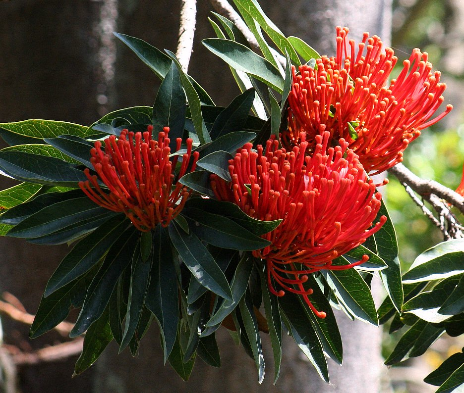 Alloxylon flammeum in flower, Royal Botanic Gardens - Sydney